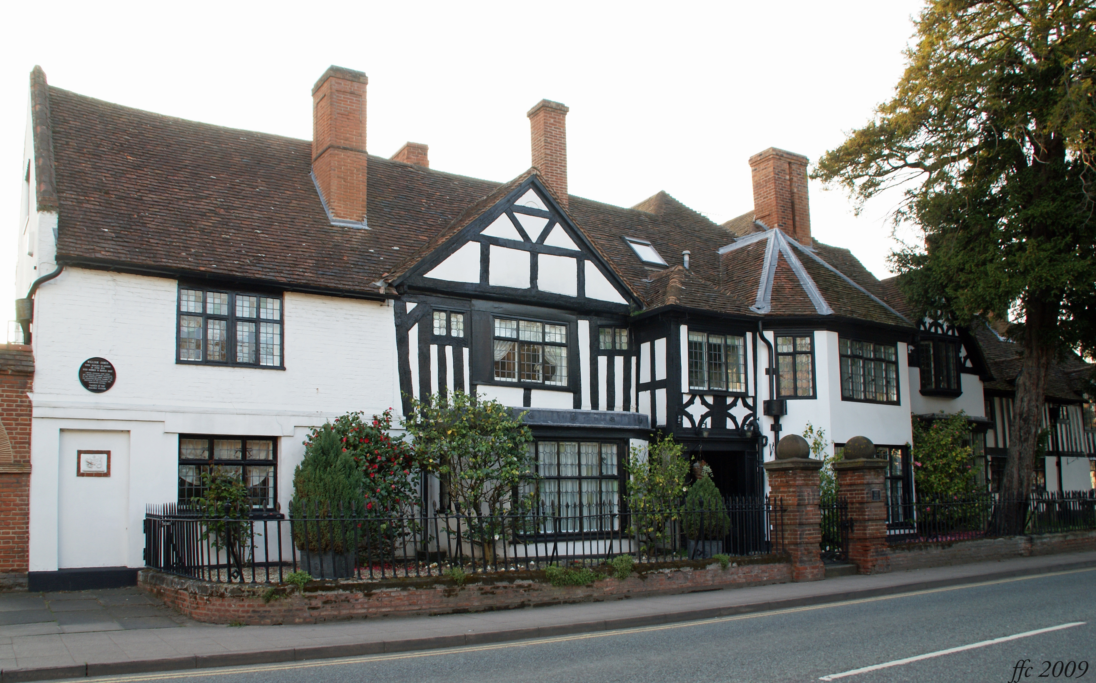 Henley-in-Arden (United Kingdom): The Yew Trees House with William James plaque